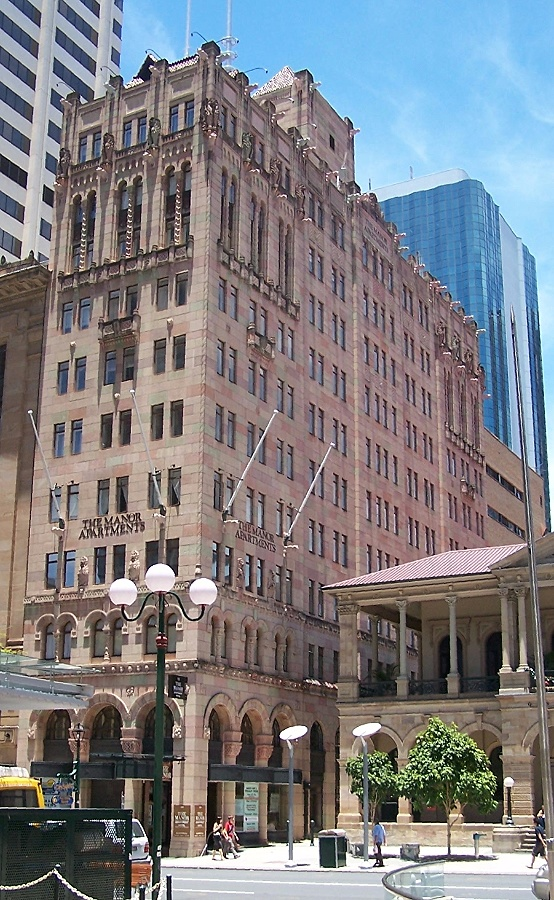 The Manor Building in Brisbane, Queensland, Australia